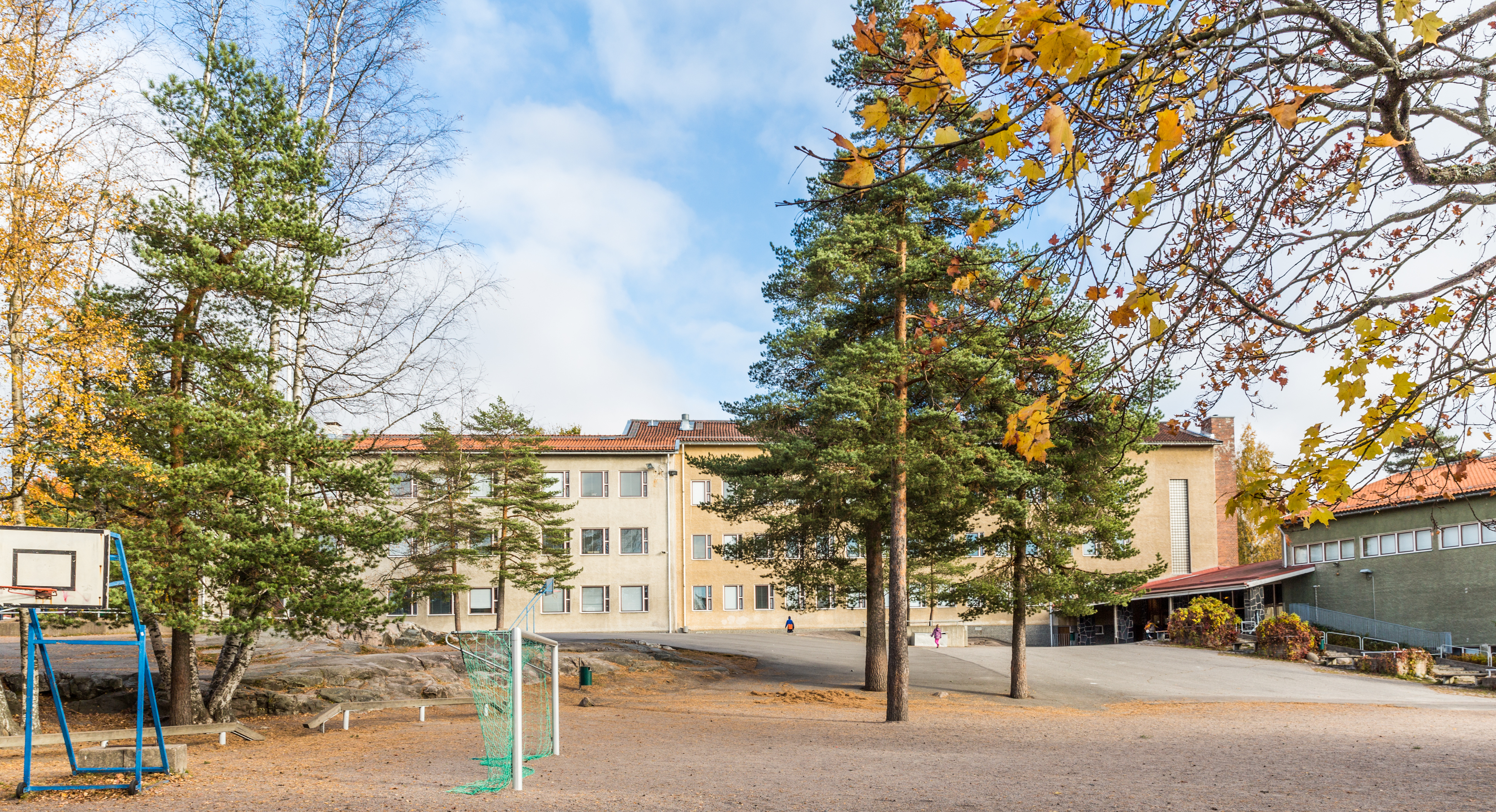 Pohjois-Haaga Primary School